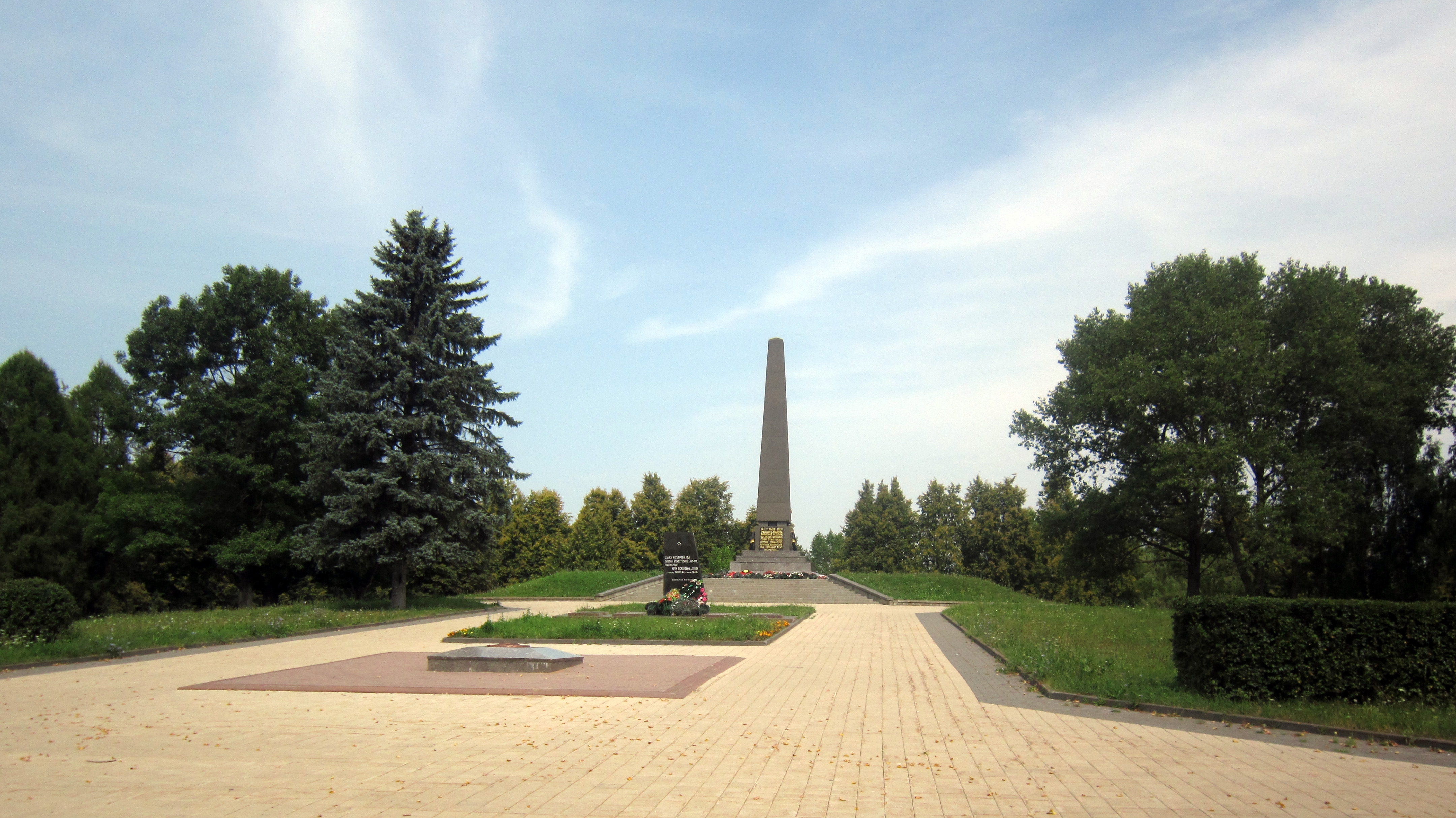 Memorial of victims of Maly Trastsianets extermination camp